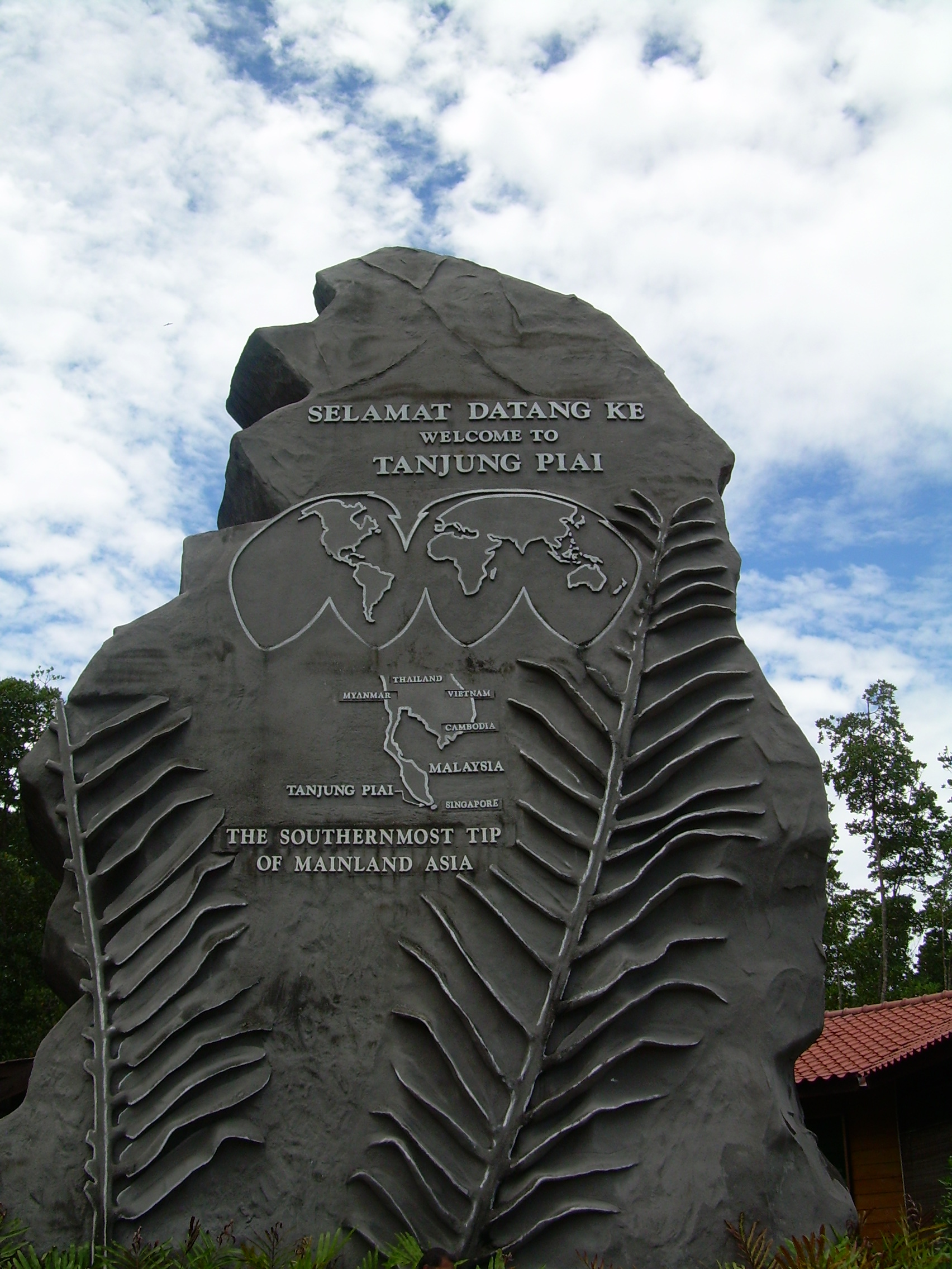 The statue of the southernmost poin of Asia at Tanjung Piai, Johor, Malaysia.